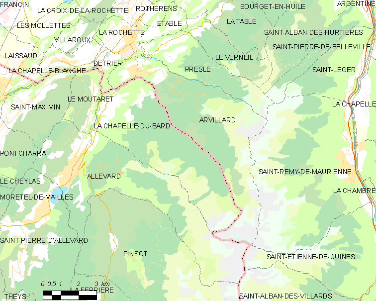 Map of French municipality